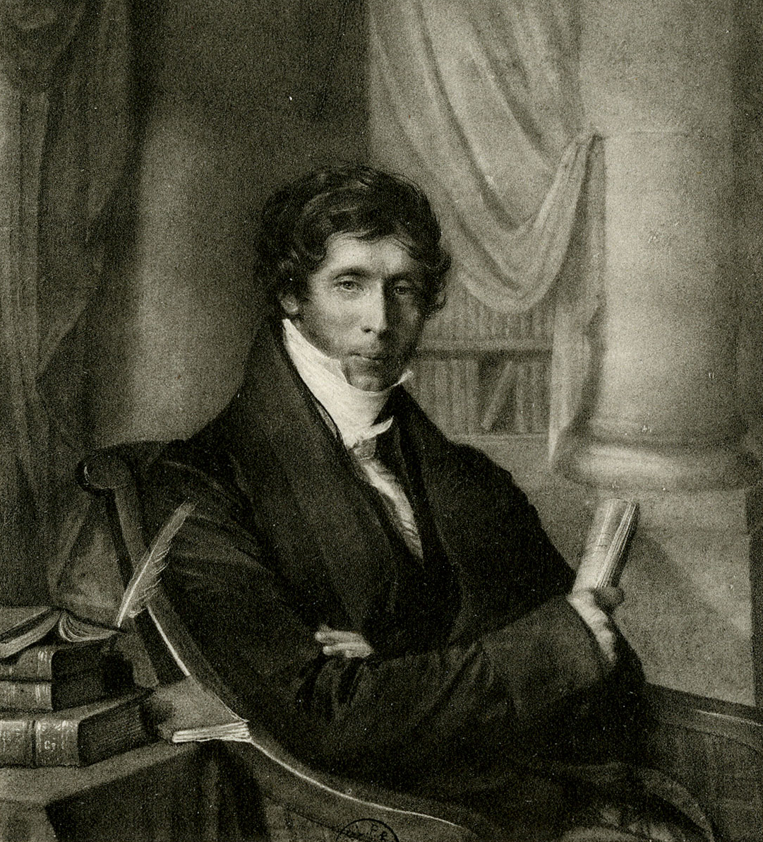 Charles Pictet de Rochemont (1755-1824), Swiss politician.